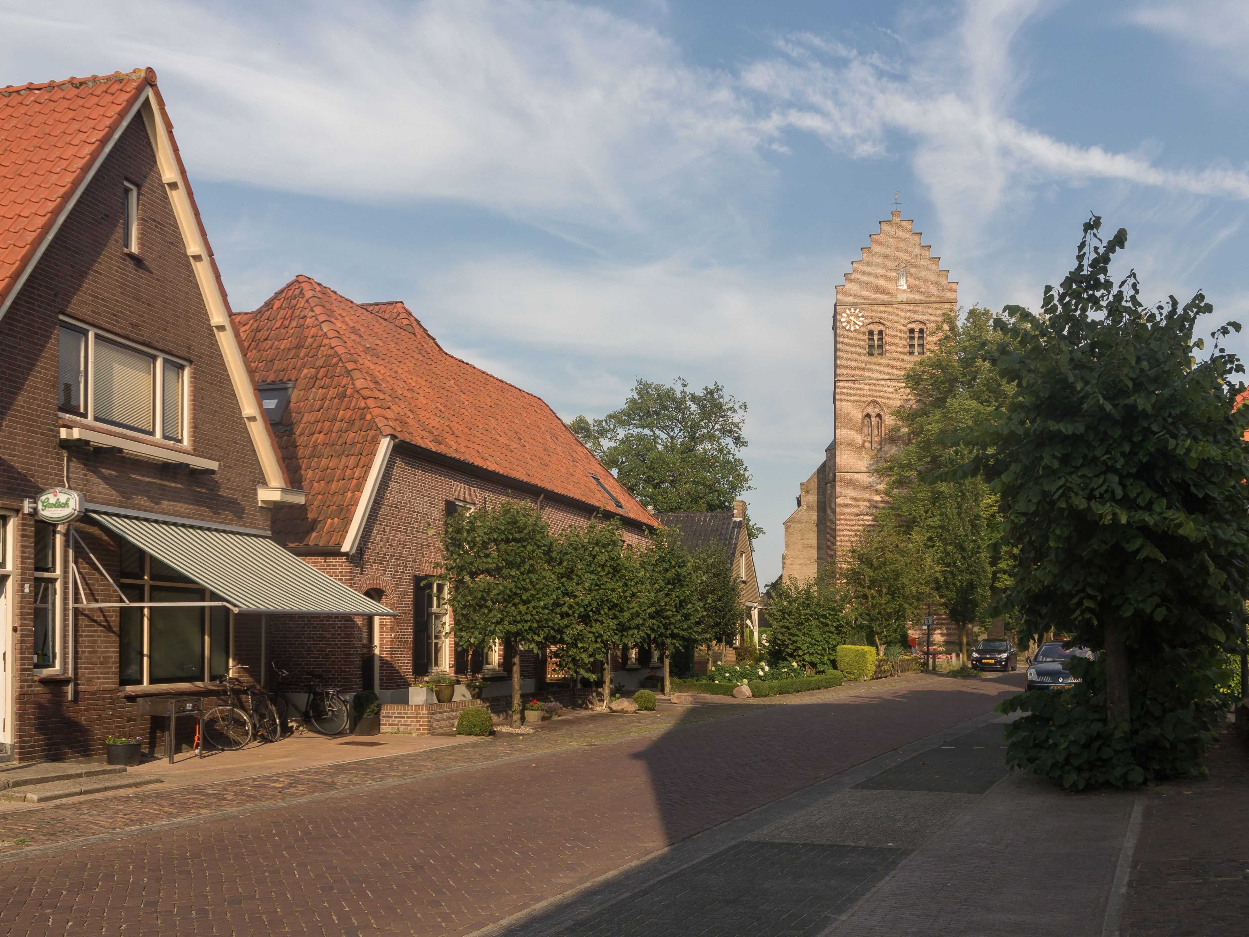 Geesteren, refromed church